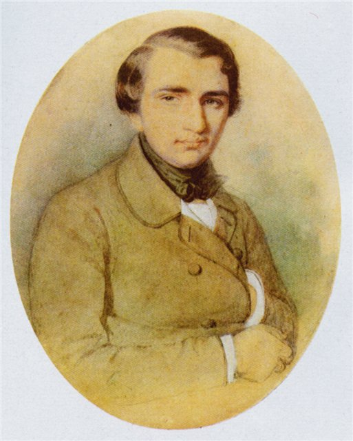 Portrait of Ivan Turgenev by K.A.Gorbunov (1838-1839)